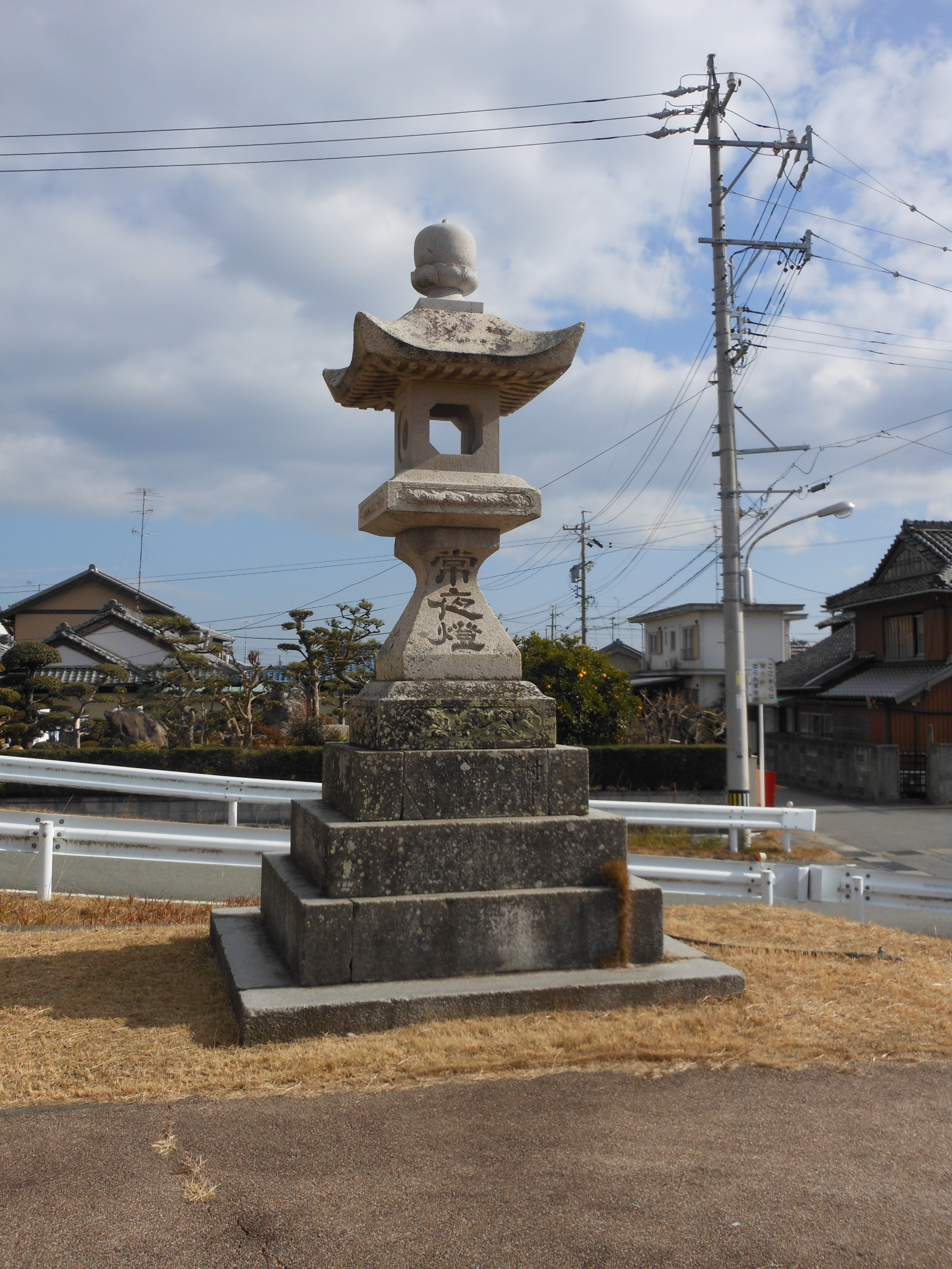 This is a stone lantern in Karasu-cho, Tsu, Mie, Japan.